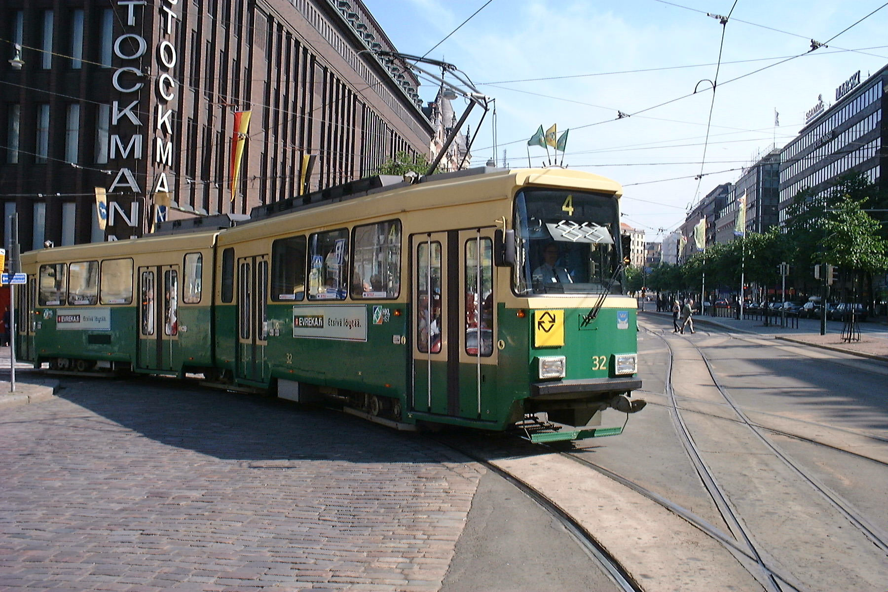 Valmet Nr1 tram (No. 32) in Helsinki, Finland.